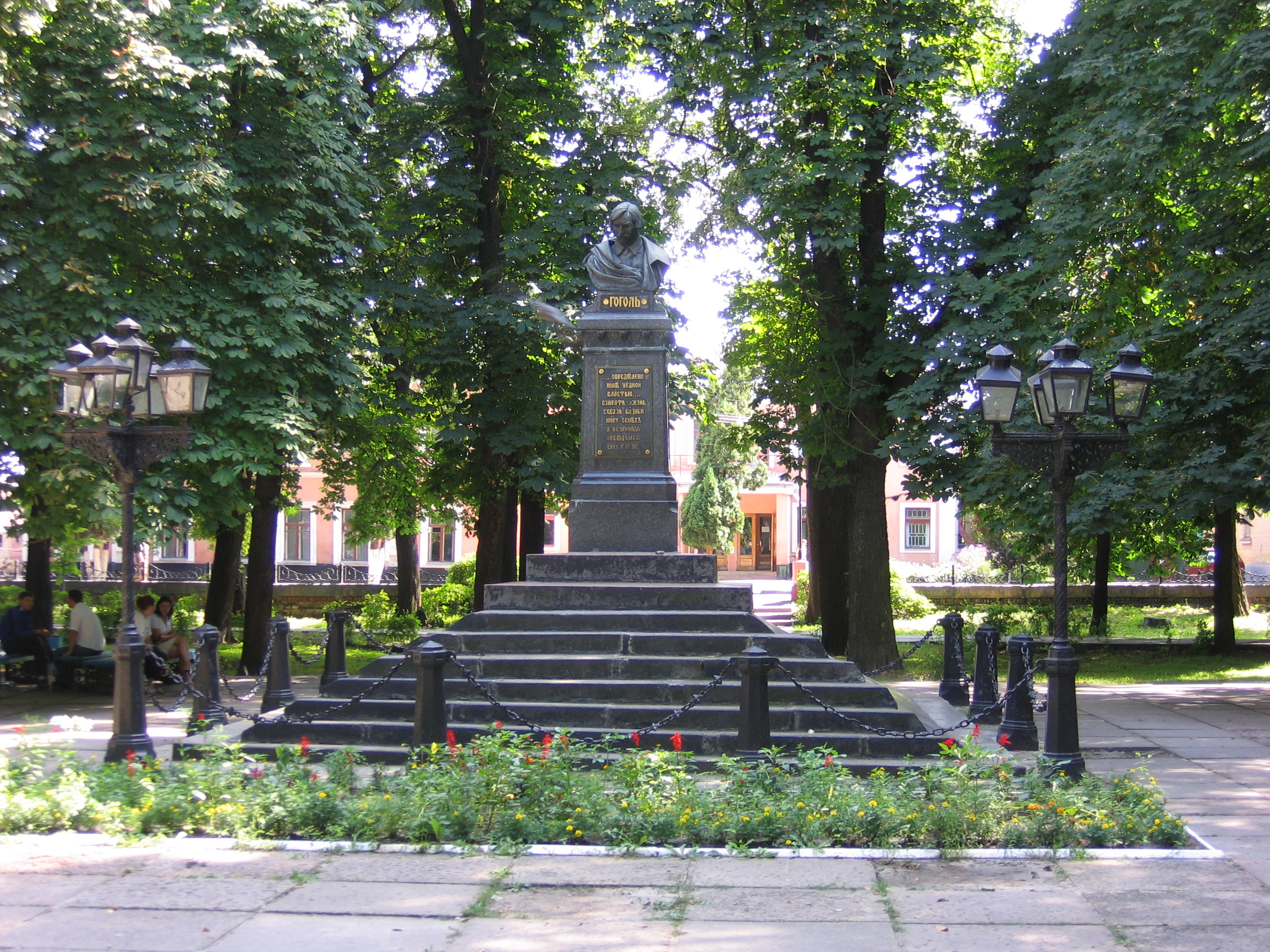 Nizhyn, Ukraine